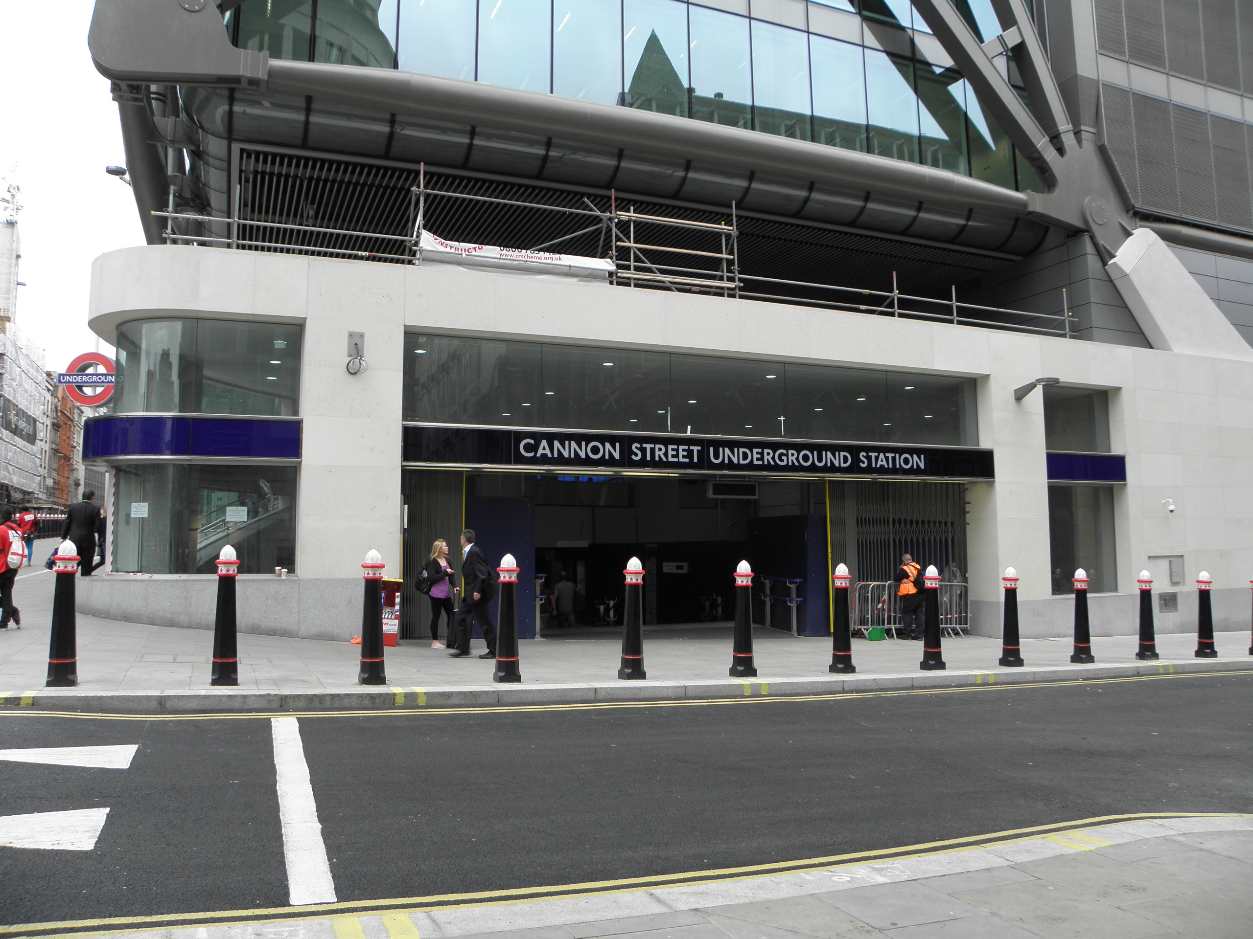 Cannon Street tube station new entrance, which opened in 2012, round the corner from the main line station entrance (the old Tube station entrance was immediately adjacent to the main line station entrance).